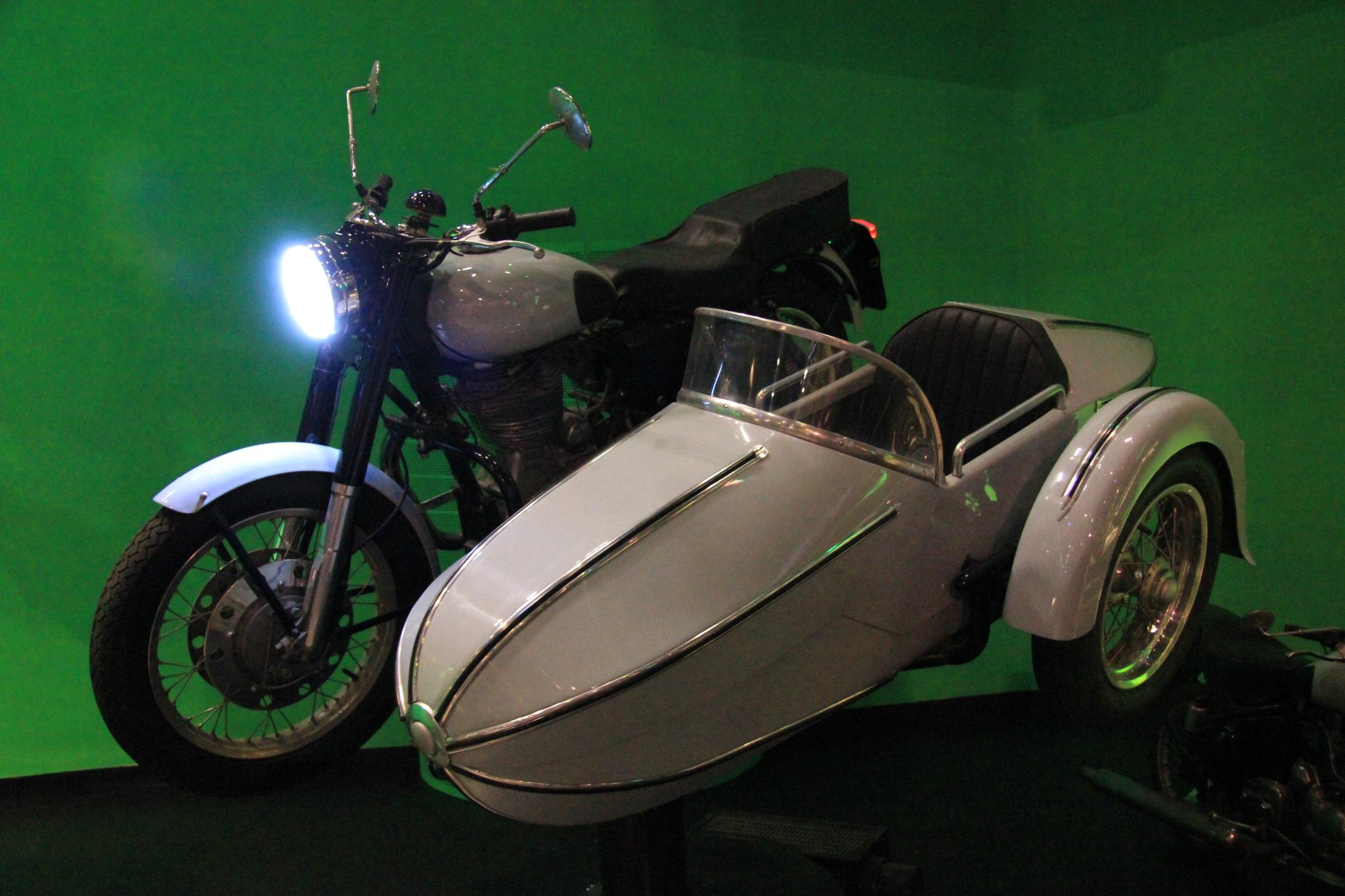 Warner Bros. Studio Tour London: The Making of Harry Potter.